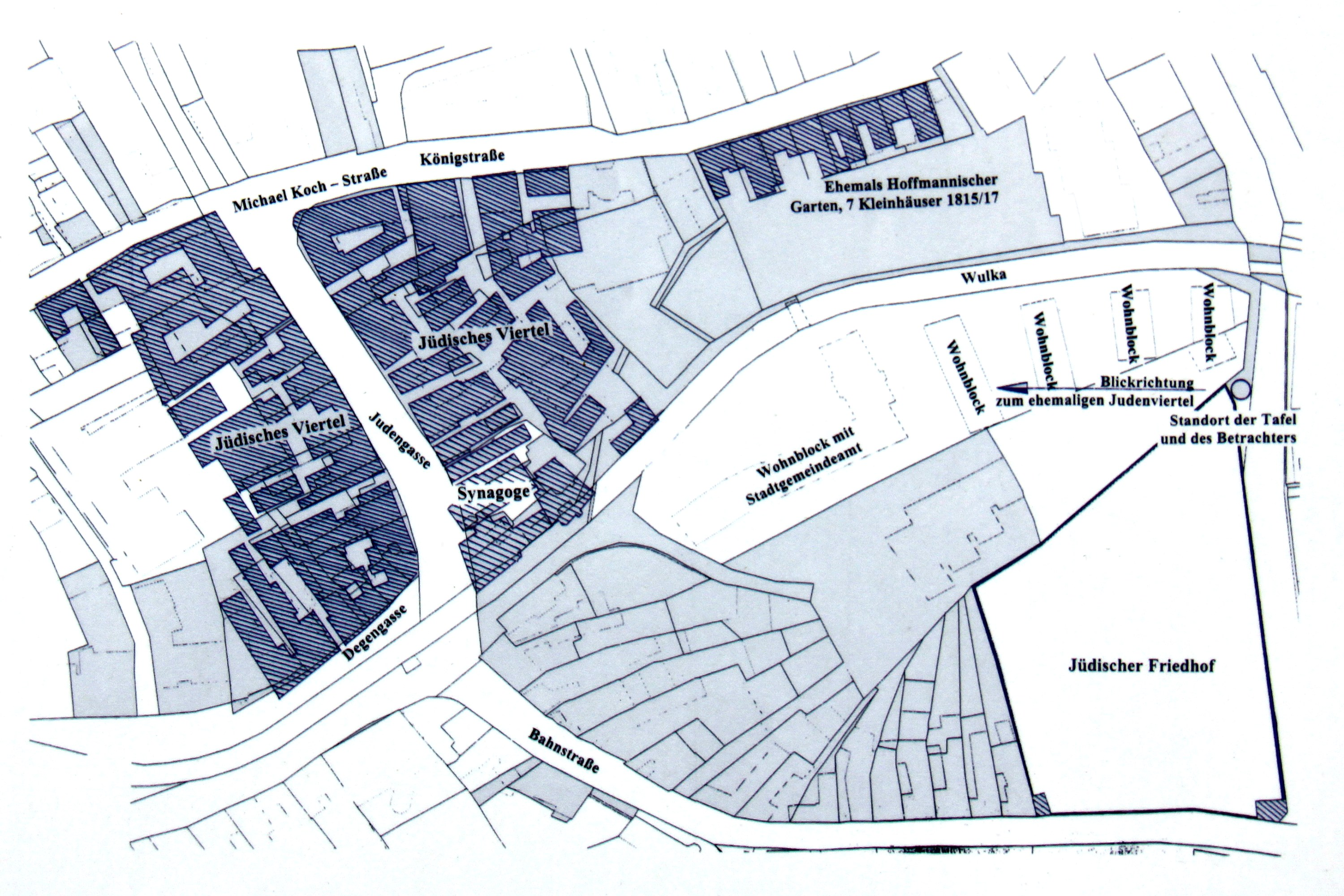 Jewish cemetery - Mattersburg. Object location47° 44′ 15.21″ N, 16° 24′ 09.89″ E